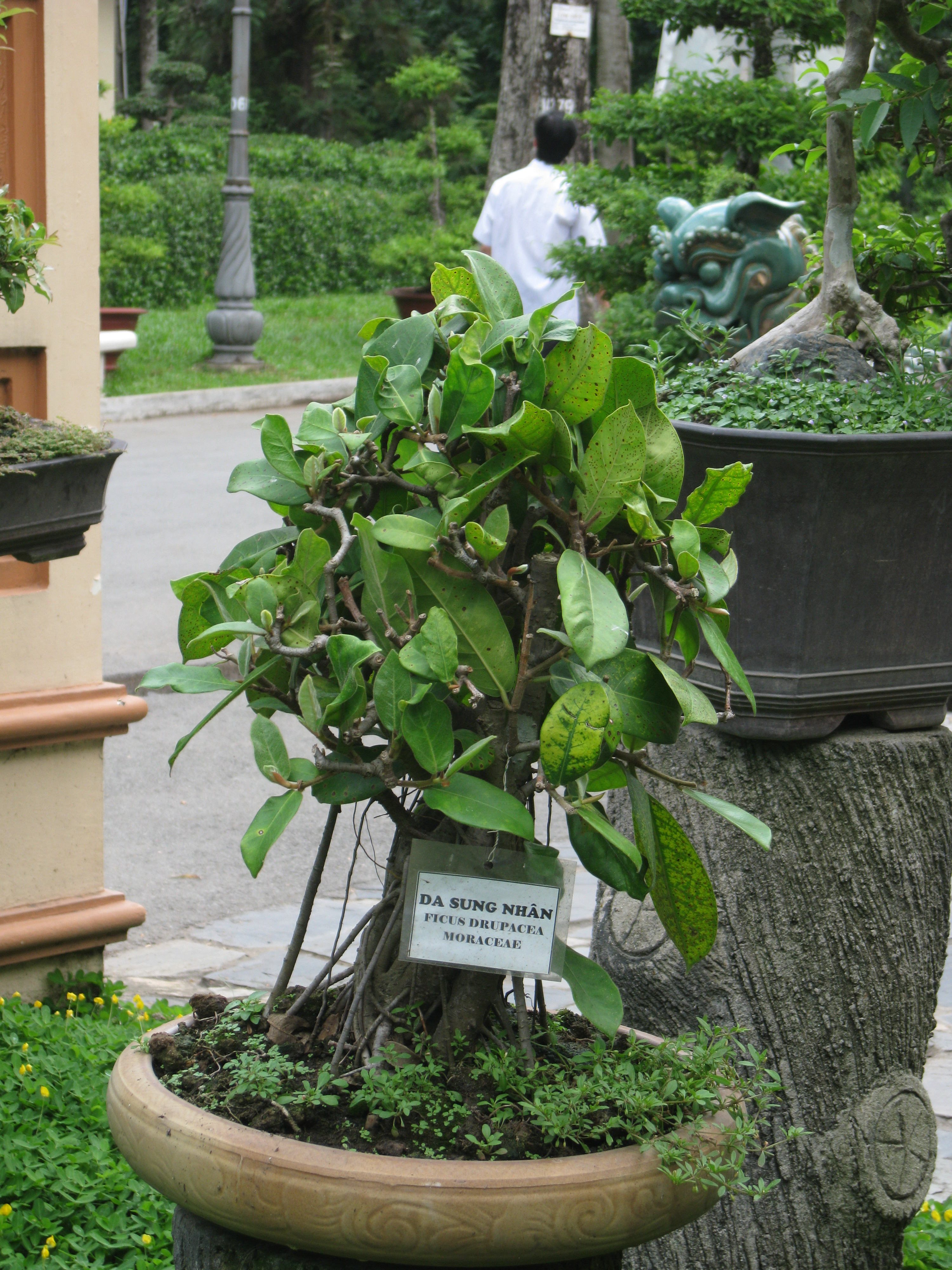 Ficus drupacea bonsai, Saigon Zoo and Botanical Gardens.